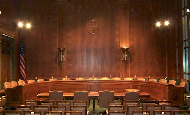 Dirksen Senate Building room 226 from category:United States Senate